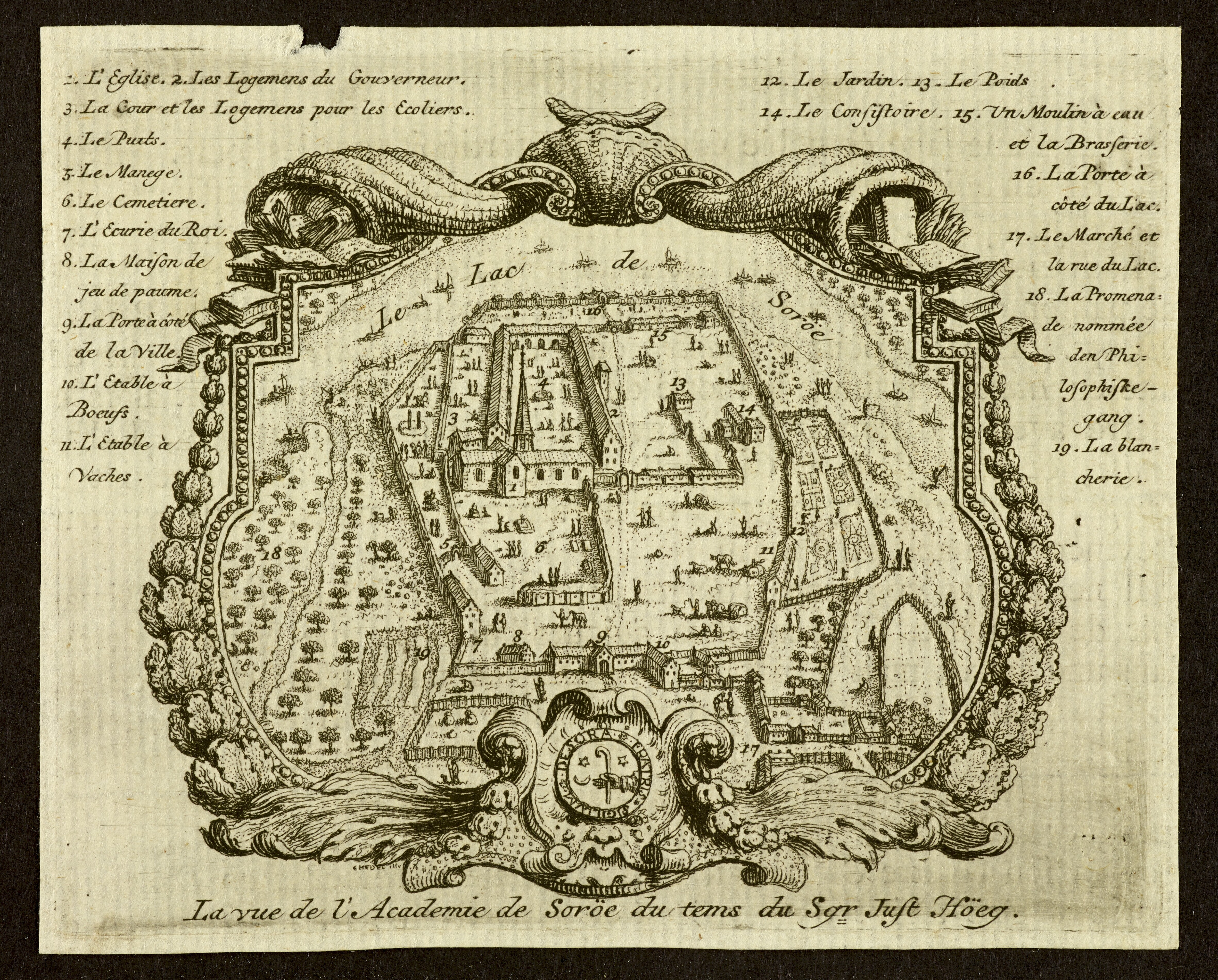 Copperplate engraving of Sorø Academy entitled La vue de l'Academie de Soröe du tems du Sgr. Just Höeg